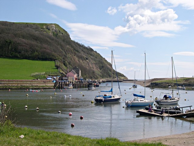 The mouth of the river Axe The river mouth, constrained by a shingle bank, curves to the east underneath Haven Cliff before reaching the sea.